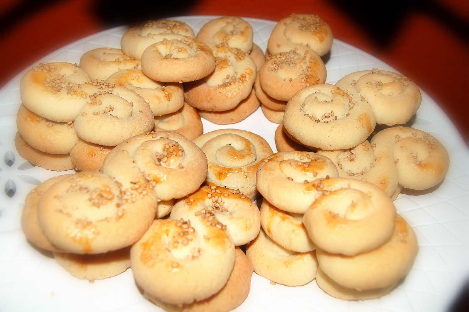 Koulourakia, a traditional Greek dessert, are butter cookies, traditionally hand-shaped, with egg glaze on top